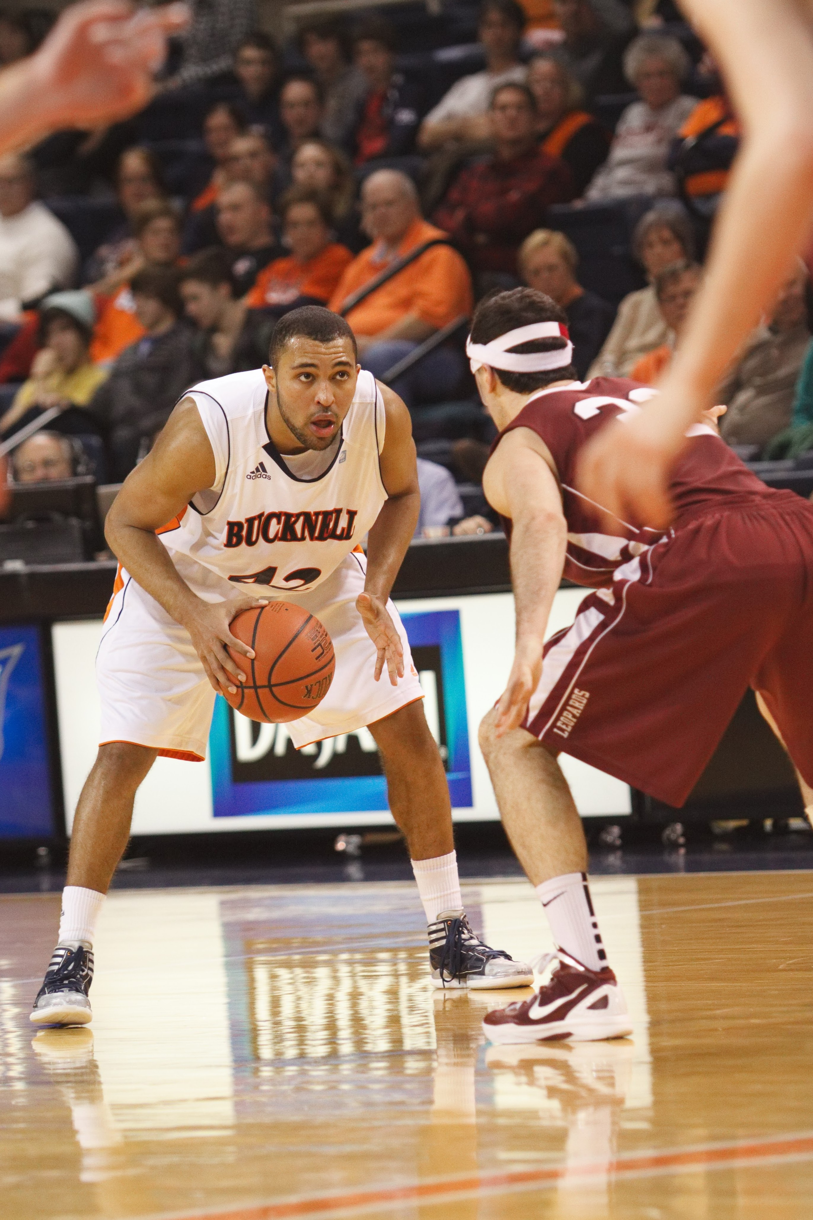 Cameron Ayers paying for Bucknell Men's Basketball team